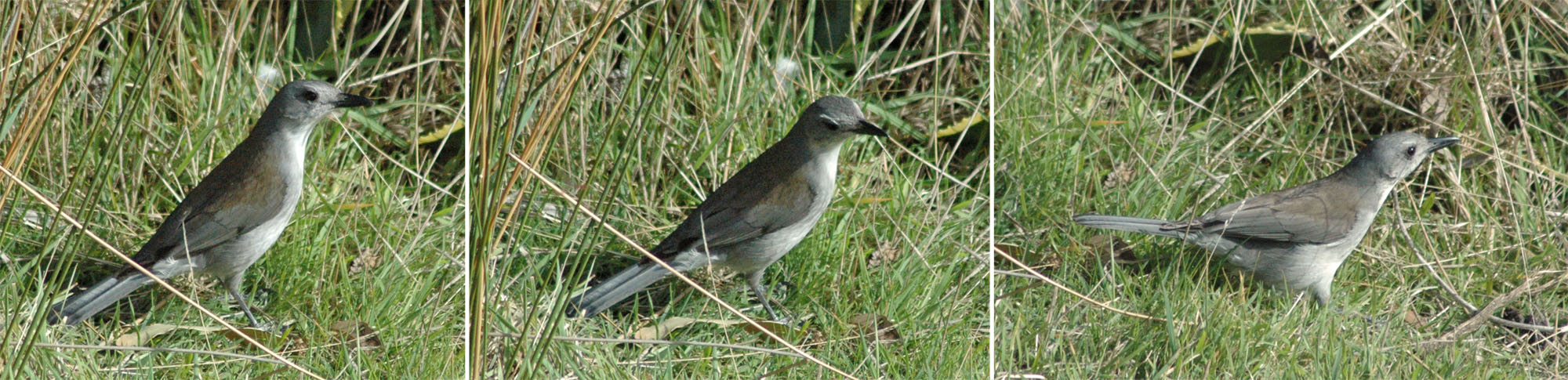 Grey shrike thrush (Colluricincla harmonica strigata) foraging for food and nesting materials. Southern Midlands, Tasmania.